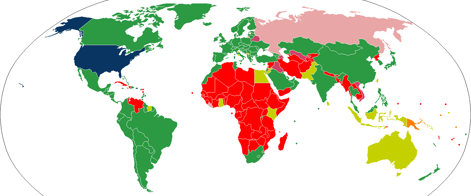 US B visa validity period per country United States 10 years 5 years 2–4 years 12–15 months 3–6 months 1 month–5 years (depending on issuance fee or visa subtype)